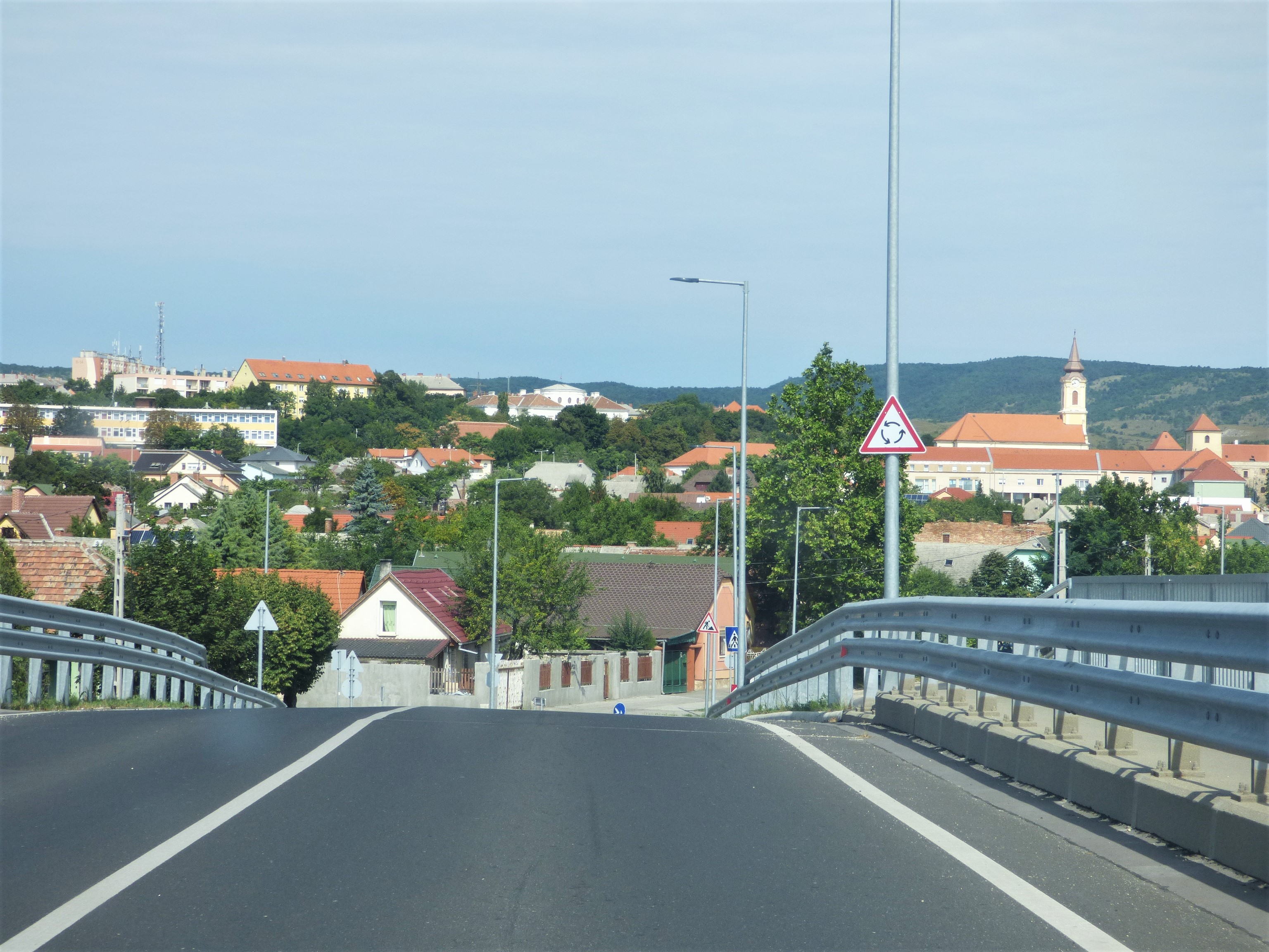 A 72108-as út a 8-as főút fölötti felüljárón